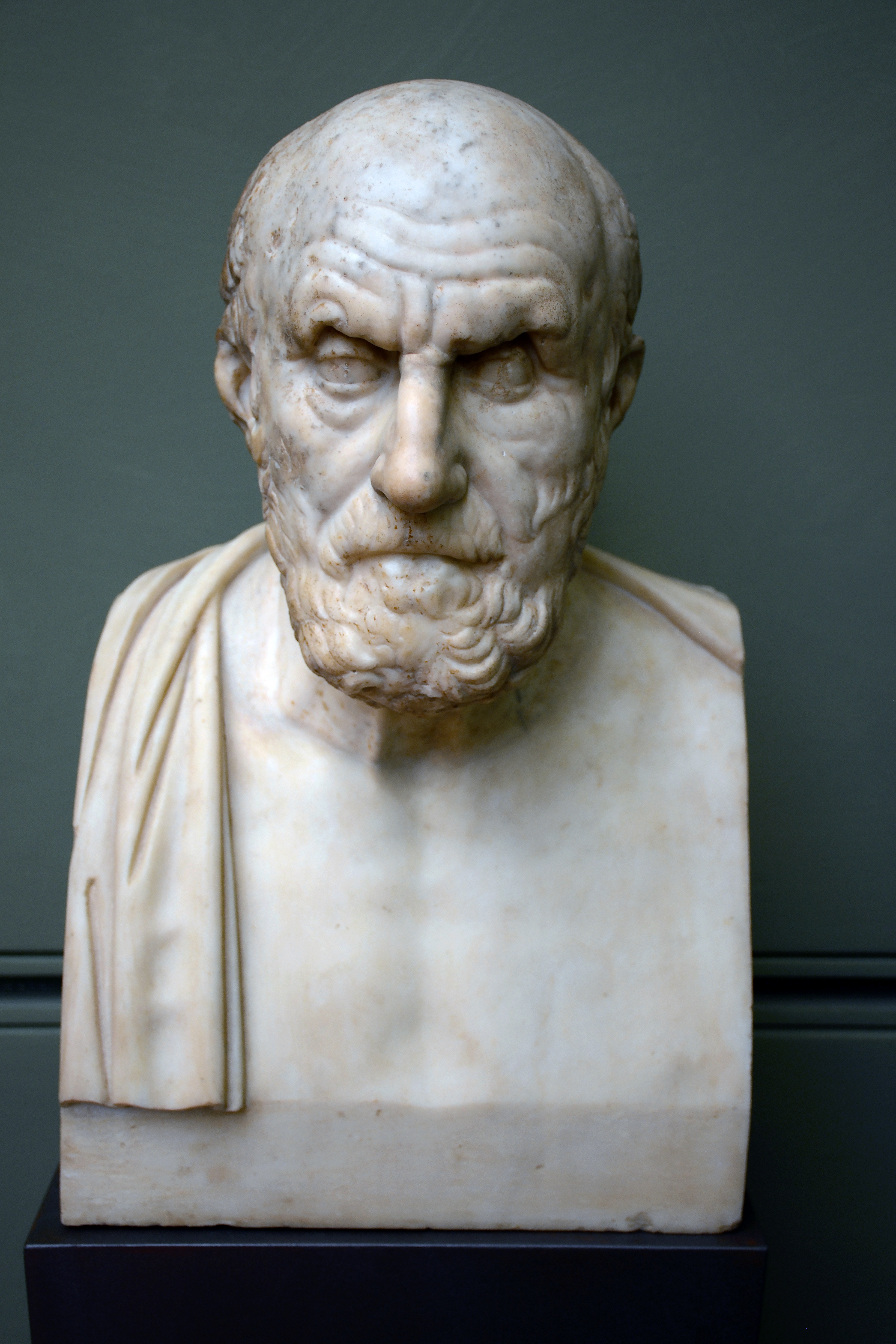 Portrait of Chrysippus